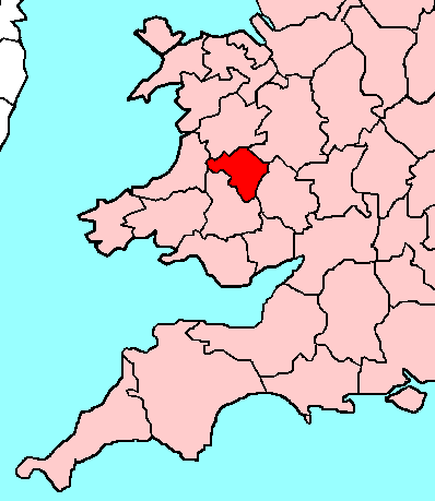 Radnorshire